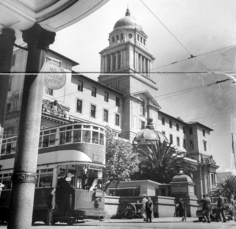 City Hall Complex, Rissik Street, Johannesburg This media shows a South African Protected Site with SAHRA file reference 9/2/228/0068See also: External entry in South African Heritage Resource Agency database.